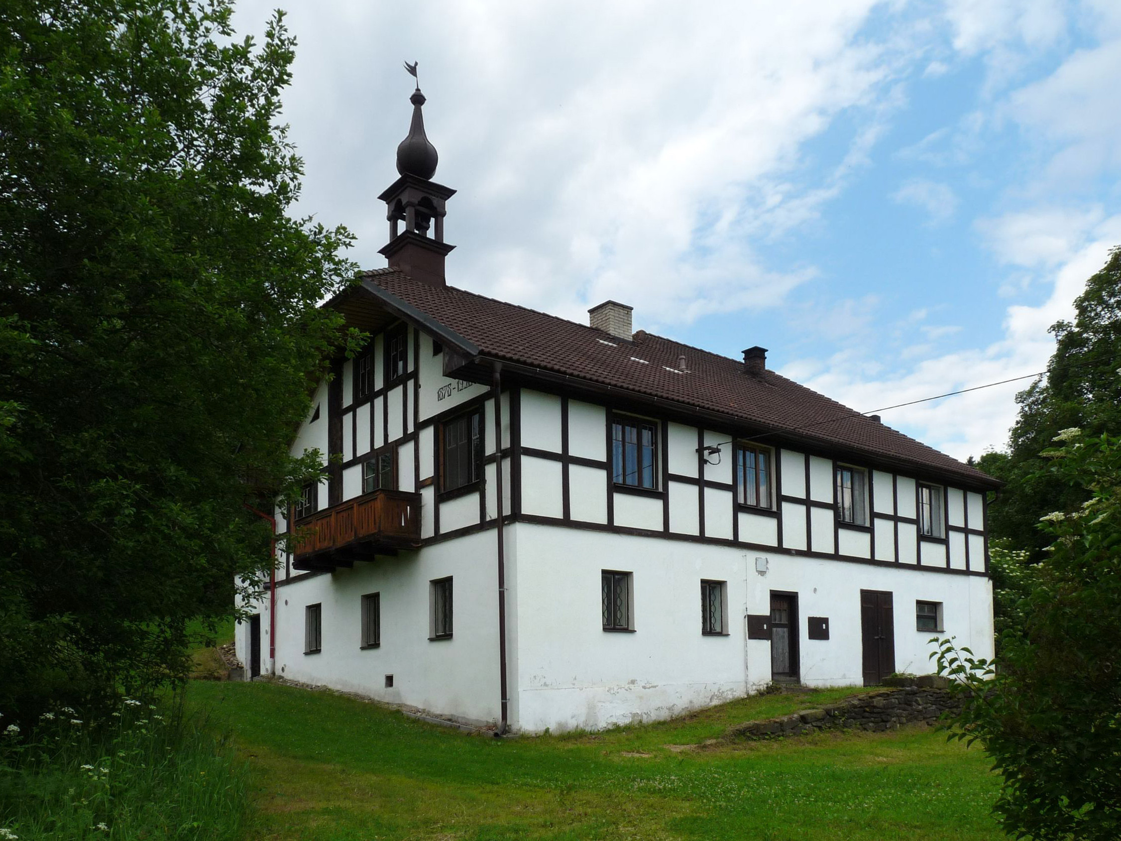 House No 45 in the village of Kříženec, part of the town of Hartmanice, Klatovy District, Plzeň Region, Czech Republic